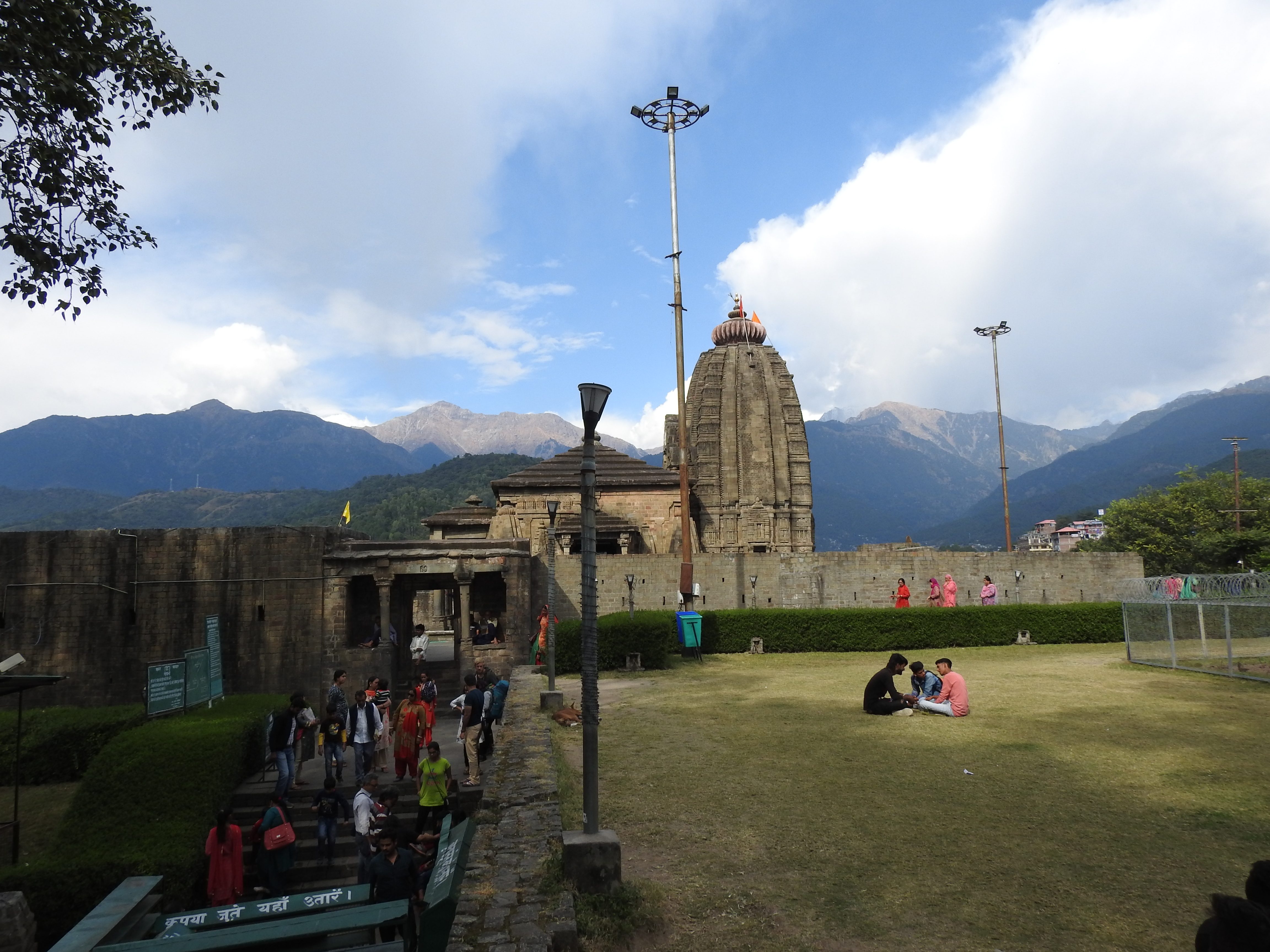 Shiva temple located in Baijnath, near Palampur in Himachal Pradesh. The city of Baijnath is named after temple's name.